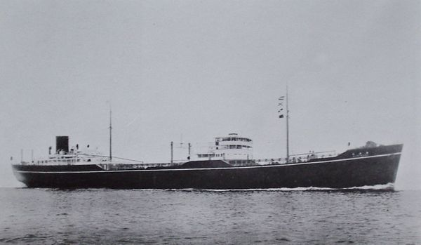 Iino Line, Kawasaki type tanker Tōa Maru